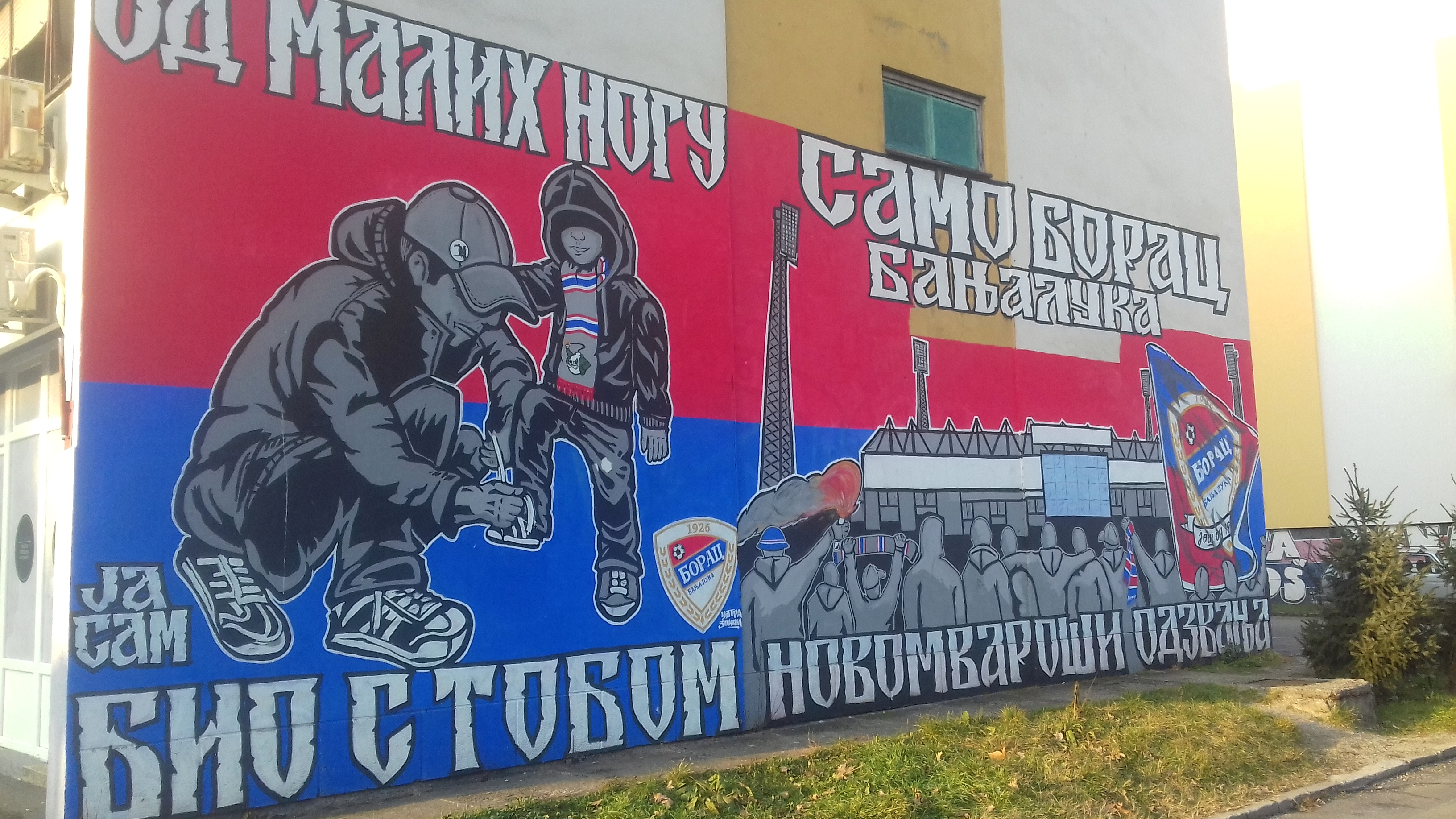 The fan group Vultures of football club Borac Banja Luka Srpski (latinica): Mural navijačke grupe Lešinari, fudbalskog kluba Borac, u banjalučkom naselju Nova varoš